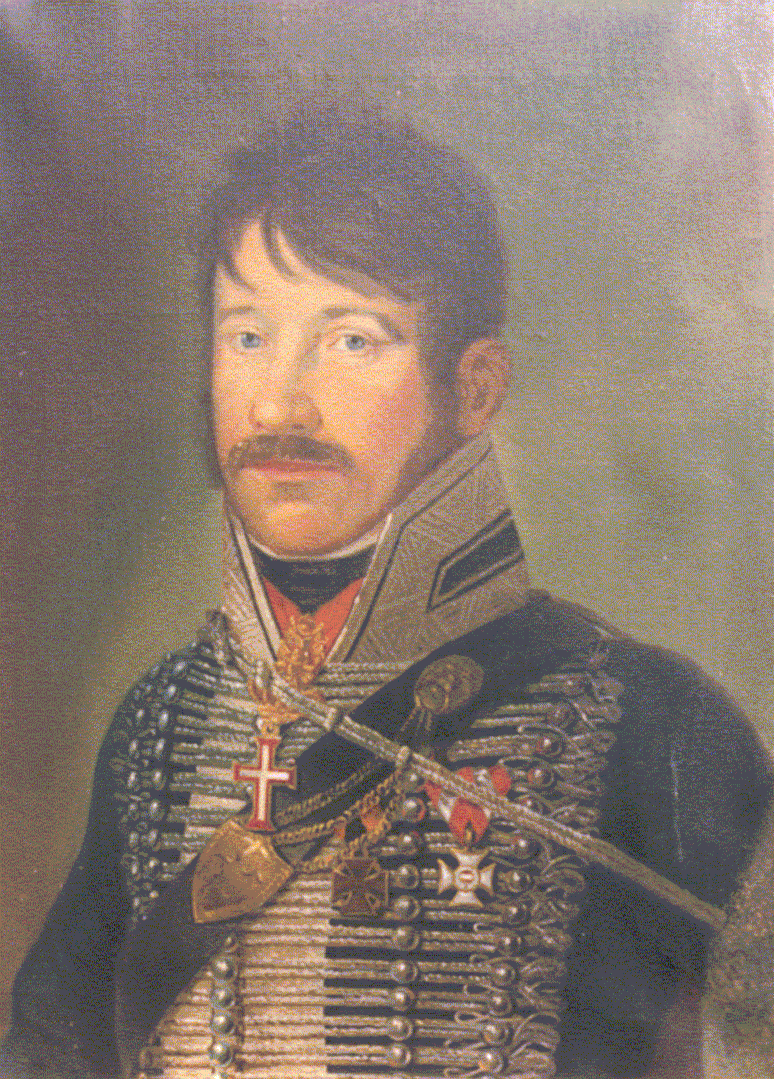 Franz Adolf Freiherr Prohaska von Guelfenburg